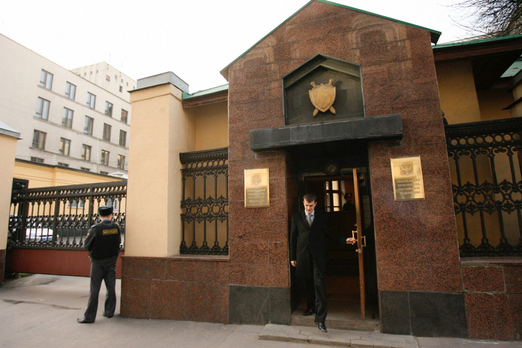 “Russian Prosecutor General's office”. The Russian Prosecutor General's office in Ulitsa Bolshaya Dmitrovka in Moscow.